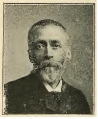 French Painter Louis Émile Adan (1839-1837), photographed by Pierre Petit (1895)